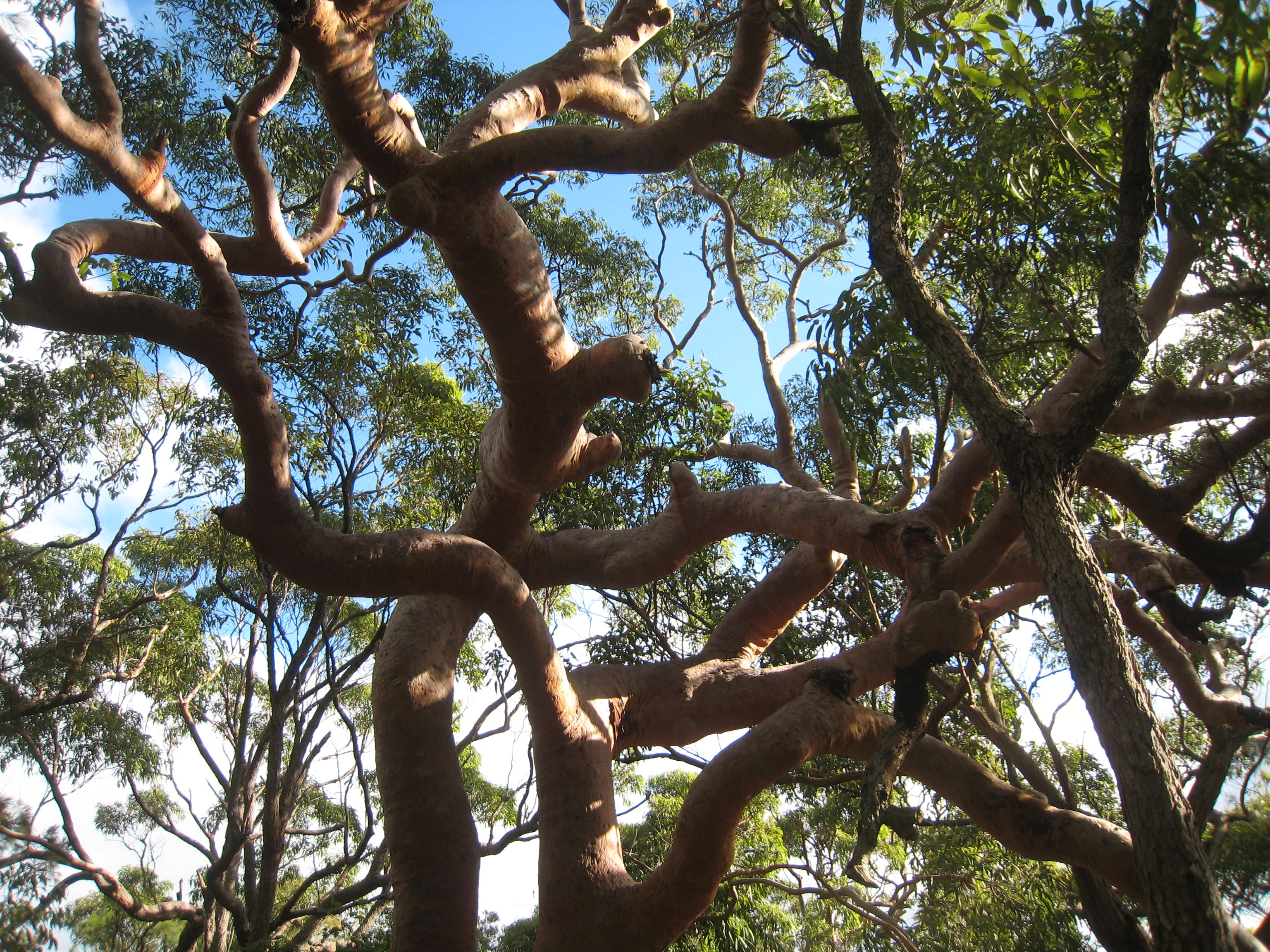 Angophora costata, Sydney Red Gum, McKay Reserve, Palm Beach, NSW, 26/04/2011.